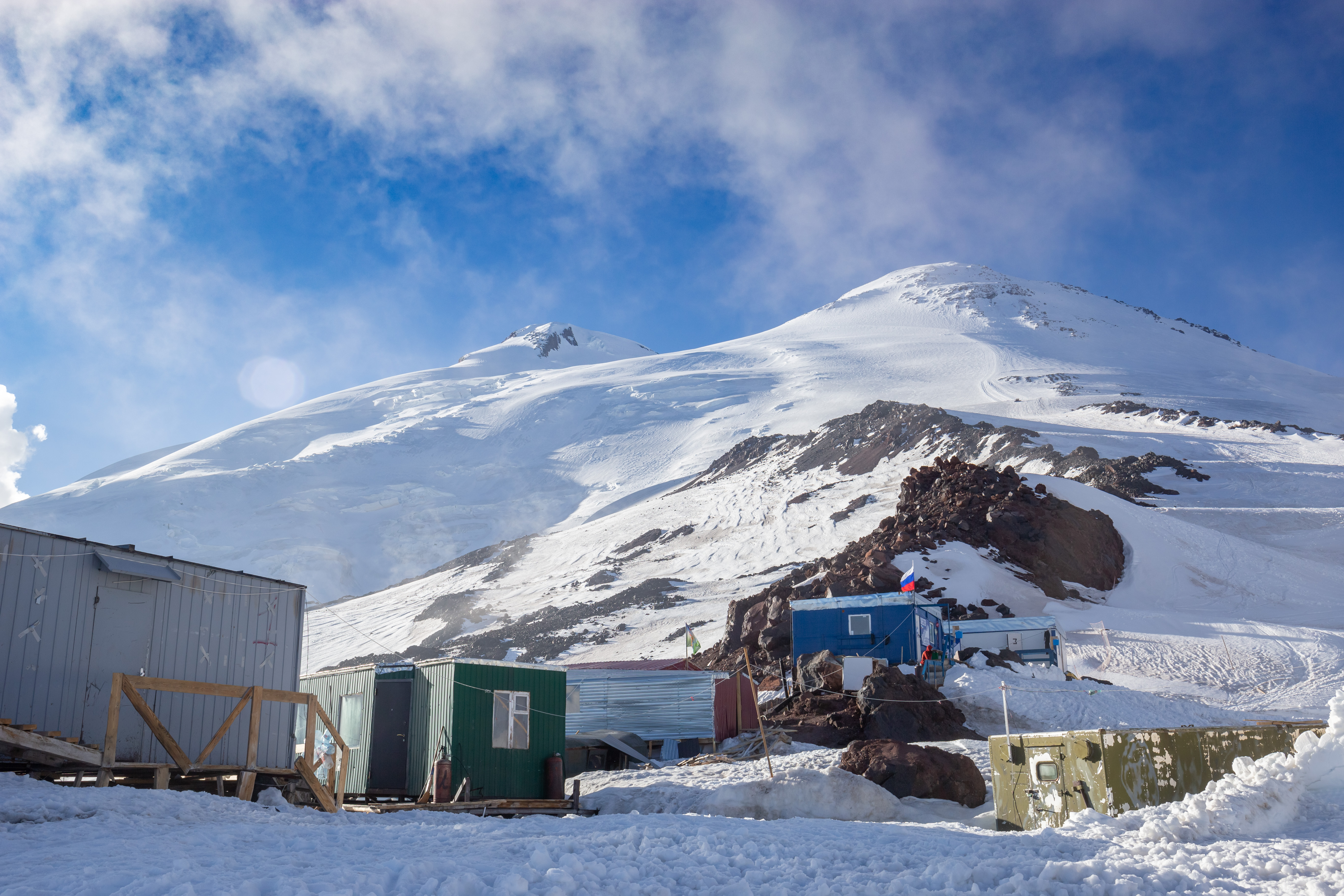 Maria shelter, Elbrus